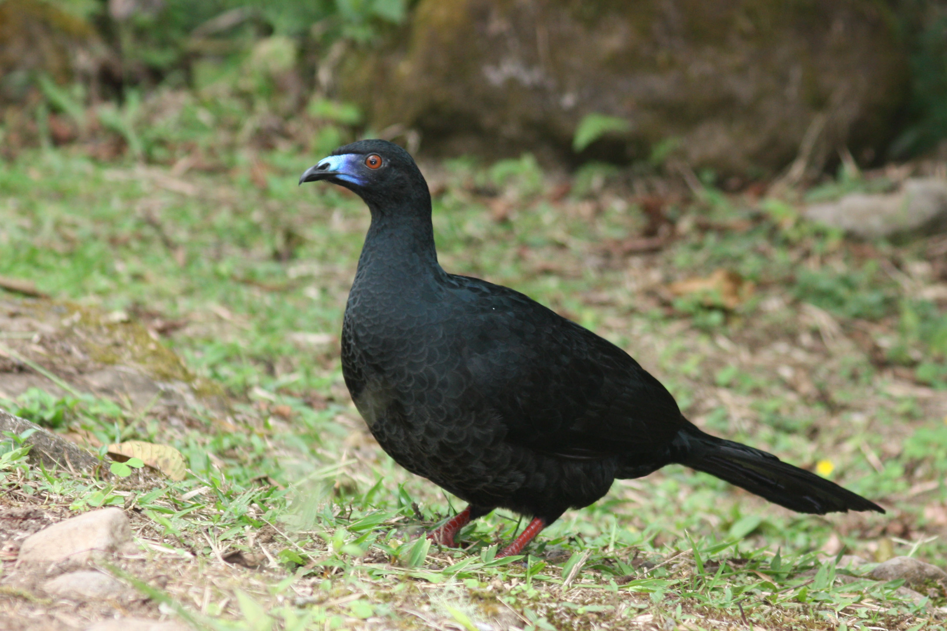 Black guan (Chamaepetes unicolor), Bosque de Paz, Costa Rica